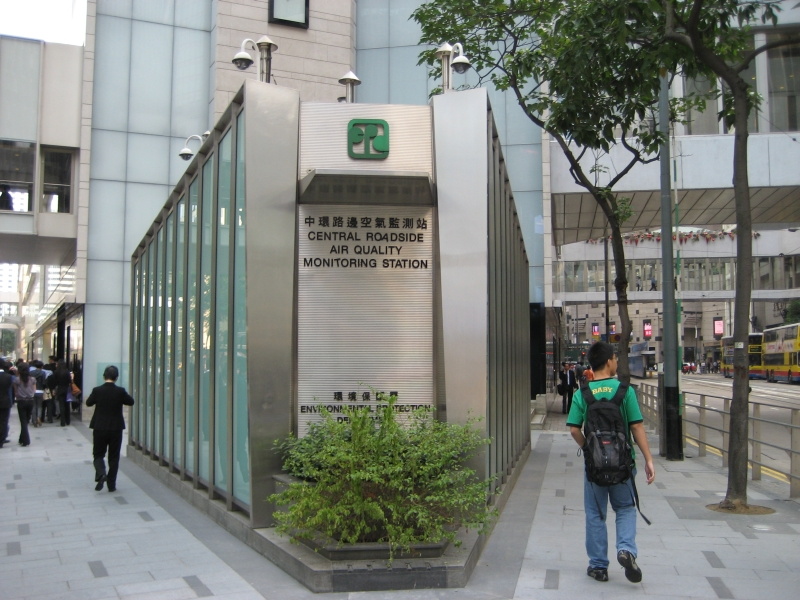 Central Roadside Air Quality Monitoring Station